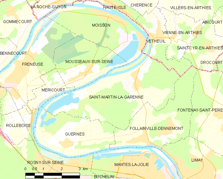 Map of French municipality Saint-Martin-la-Garenne